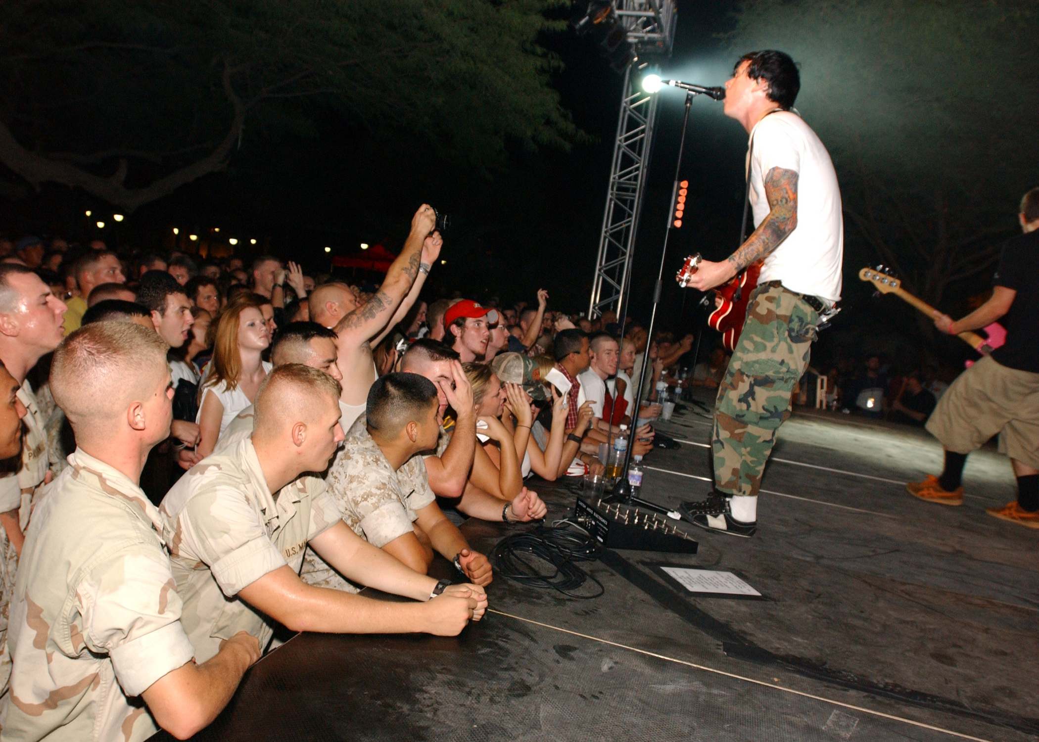 Manama, Bahrain (Aug. 25, 2003) -- The rock band Blink-182 guitarist and singer Tom Delonge performs for Sailors and Marines at Naval Support Activity Bahrain’s Main Street Park. Morale Welfare and Recreation (MWR), Naval Personnel Command Millington, Tenn. and MWR, NSA Bahrain brought Blink-182 to Bahrain to perform for Sailors, Marines and their families. U.S. Navy photo by Photographer’s Mate 2nd Class Veronica Birmingham. (RELEASED)